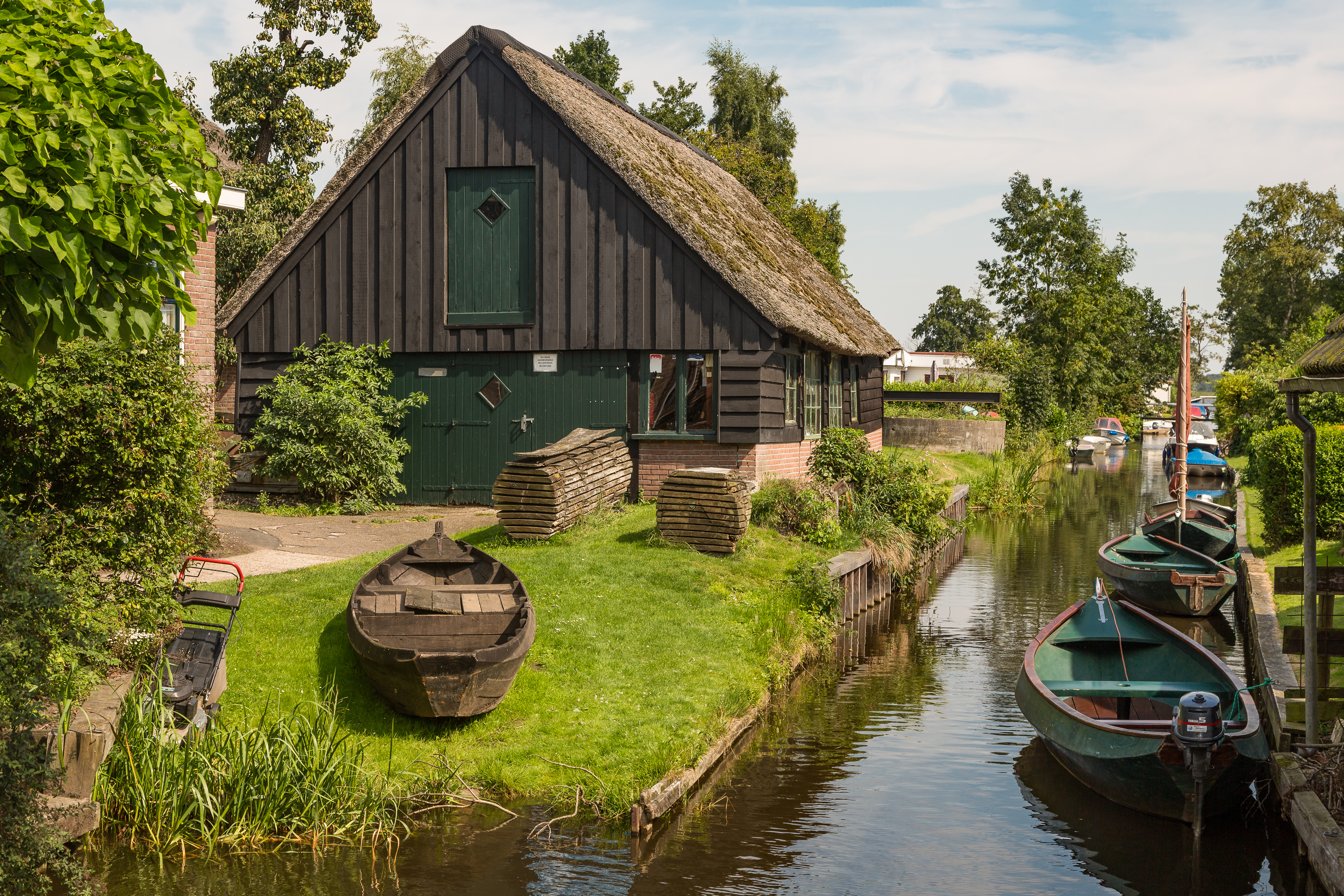 Giethoorn, The Netherlands: A boatbuilders shop at one of Giethoorns water channels